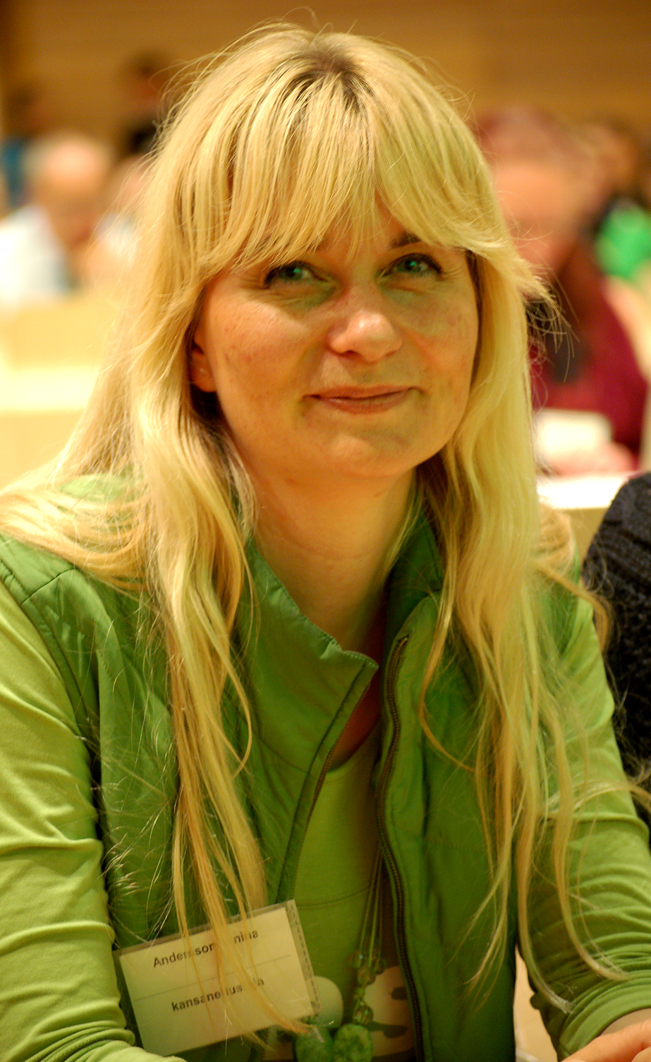 Janina Andersson, a member of Finnish Parliament, at the 2007 party convention of Green League